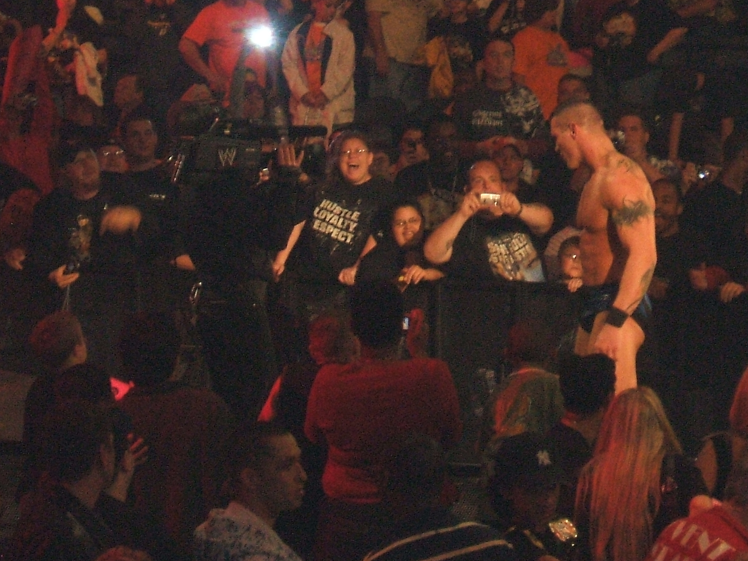 Shot with a Kodak FinePix A500 Camera on April 27th, 2008 at WWE Backlash in the First Mariner Arena.